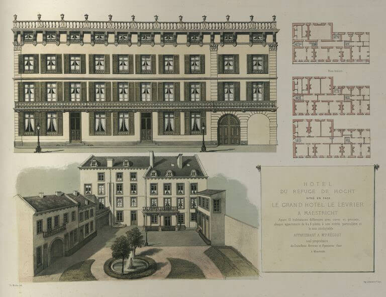 Two houses in Boschstraat, Maastricht, Netherlands, owned by Petrus Regout, entrepreneur and "nouveau riche". Top: the former refuge house of Hocht Abbey, that Regout had entirely refurbished. Bottom: garden of Hotel du Levrier. Coloured lithograph in an album titled Album dedié a mes amis et mes enfants that Petrus Regout had put together around 1860 for family and friends to show off his wealth. It mainly contained prints of his real estate and some portraits. Throughout the 1860s various versions were printed.